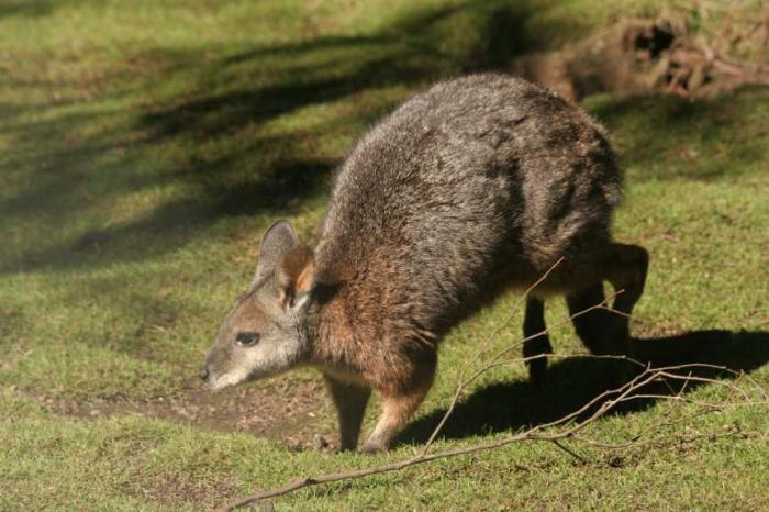 Tammar wallaby at ZOO Bimbimbie, Victoria, Australia